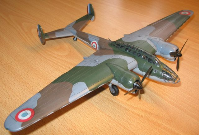 scale model of an Amiot 351